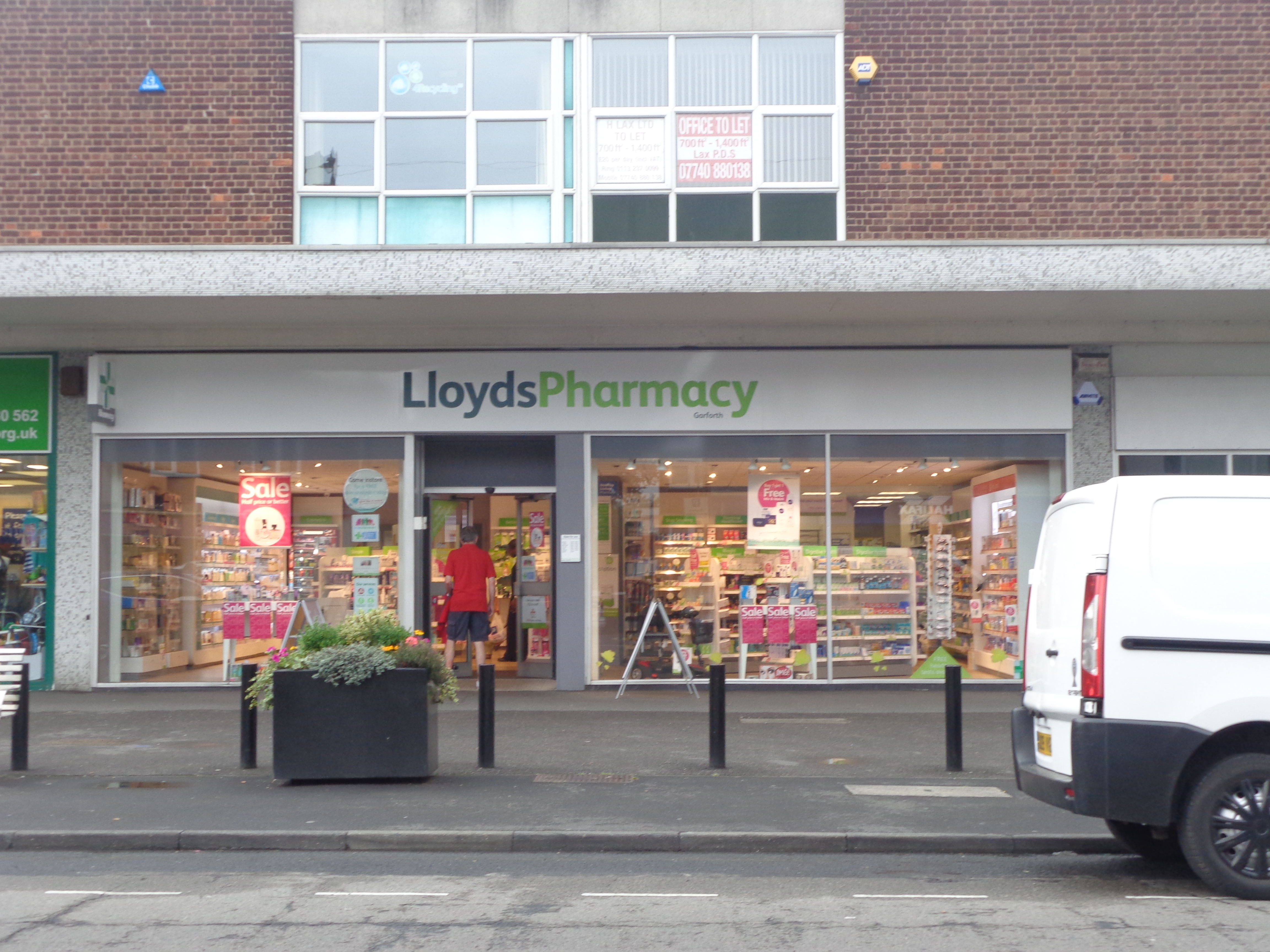 Lloyds Pharmacy, Main Street, Garforth, West Yorkshire. Taken on the afternoon of Saturday the 19th of July 2014.